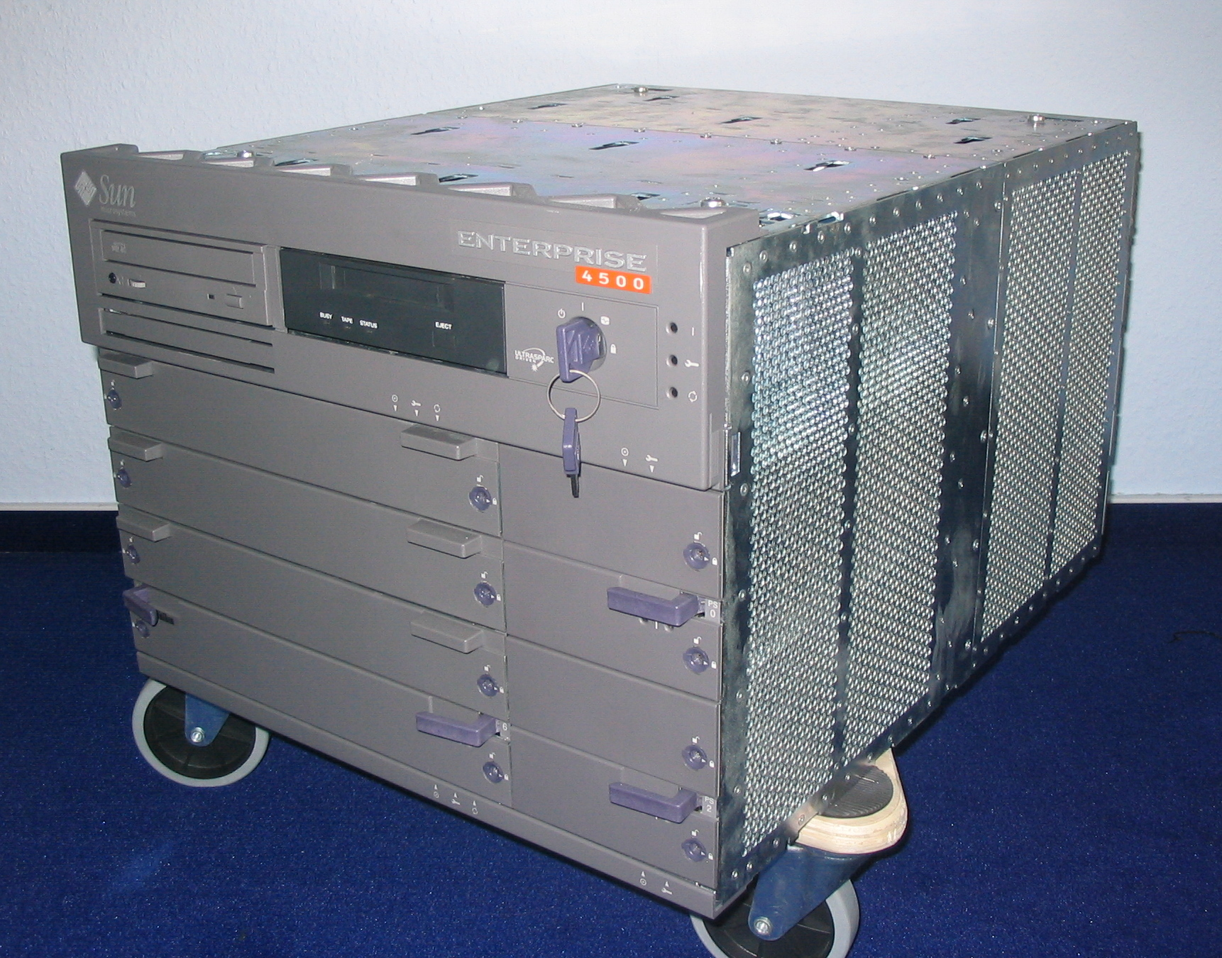 Sun Enterprise 4500 front side with a DDS3- and CD-drive.